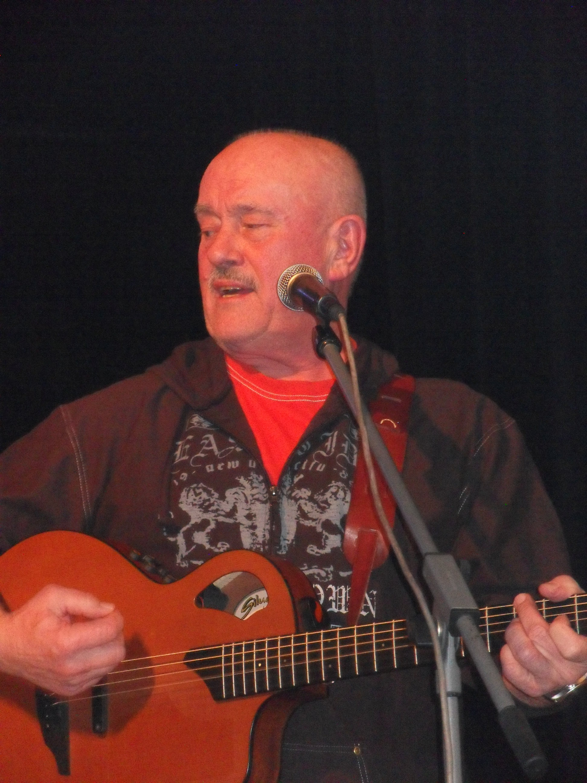 Vocalist Petr Ulrych of Czech band Javory, Brno, Czech Republic